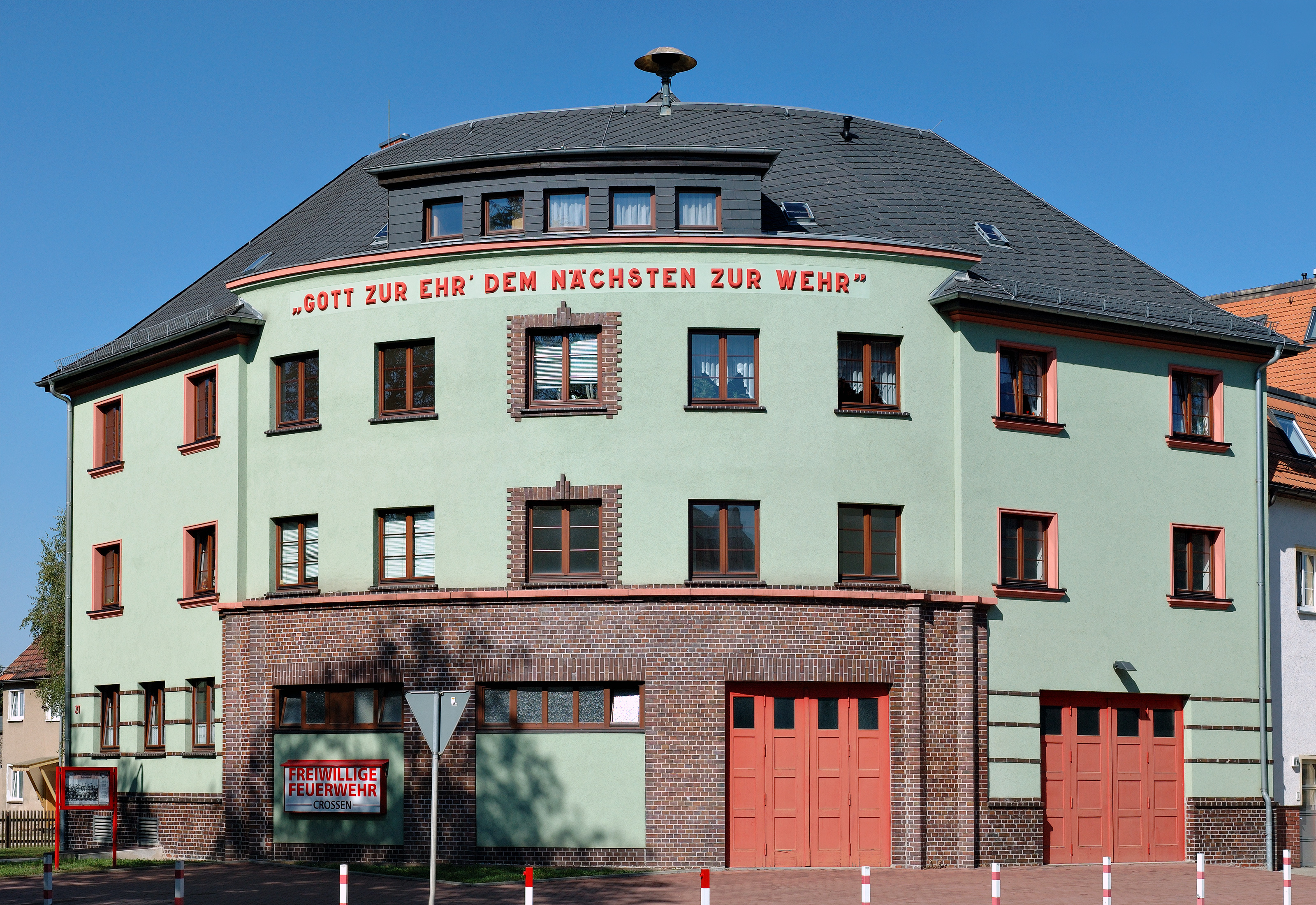 This image shows the fire department in Zwickau-Crossen (Saxony, Germany). It has been stitched together using three single images.